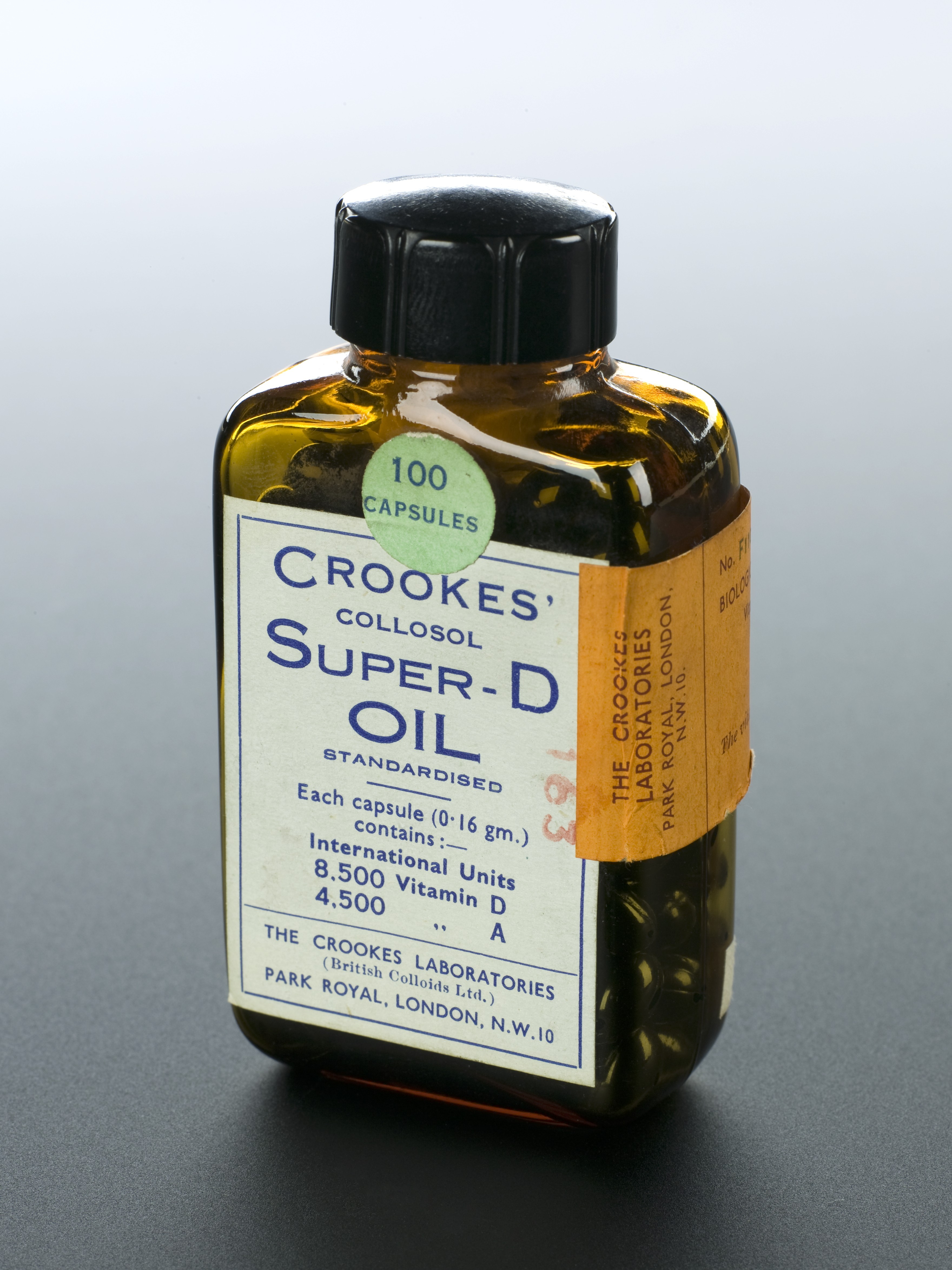 Vitamins cannot be manufactured by the body and have to be taken in as part of a healthy diet. A lack of vitamin D causes a condition called rickets. Rickets causes the leg bones to be underdeveloped, resulting in bent and twisted bones. The label gives us information about the contents of the capsules but it is also marked with the words “War emergency packaging”, which helps date the object. Supplements would have been even more important during the Second World War as meat, eggs and milk were all rationed. The vitamins may have been too expensive for some people to buy. maker: Crookes Laboratories Limited Place made: London, Greater London, England, United Kingdom Wellcome Images Keywords: Vitamin A; Rickets; bottle; Vitamin D